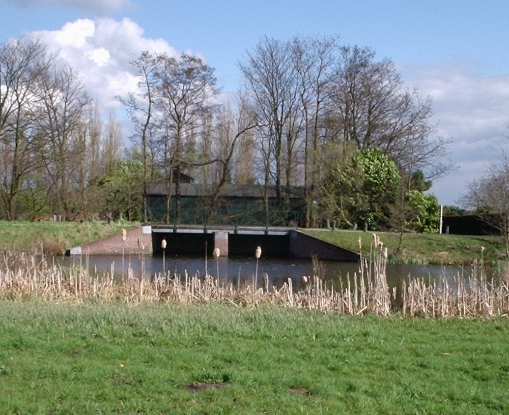 Inundation Sluice at Ruigenhoek - photo April 17 2006